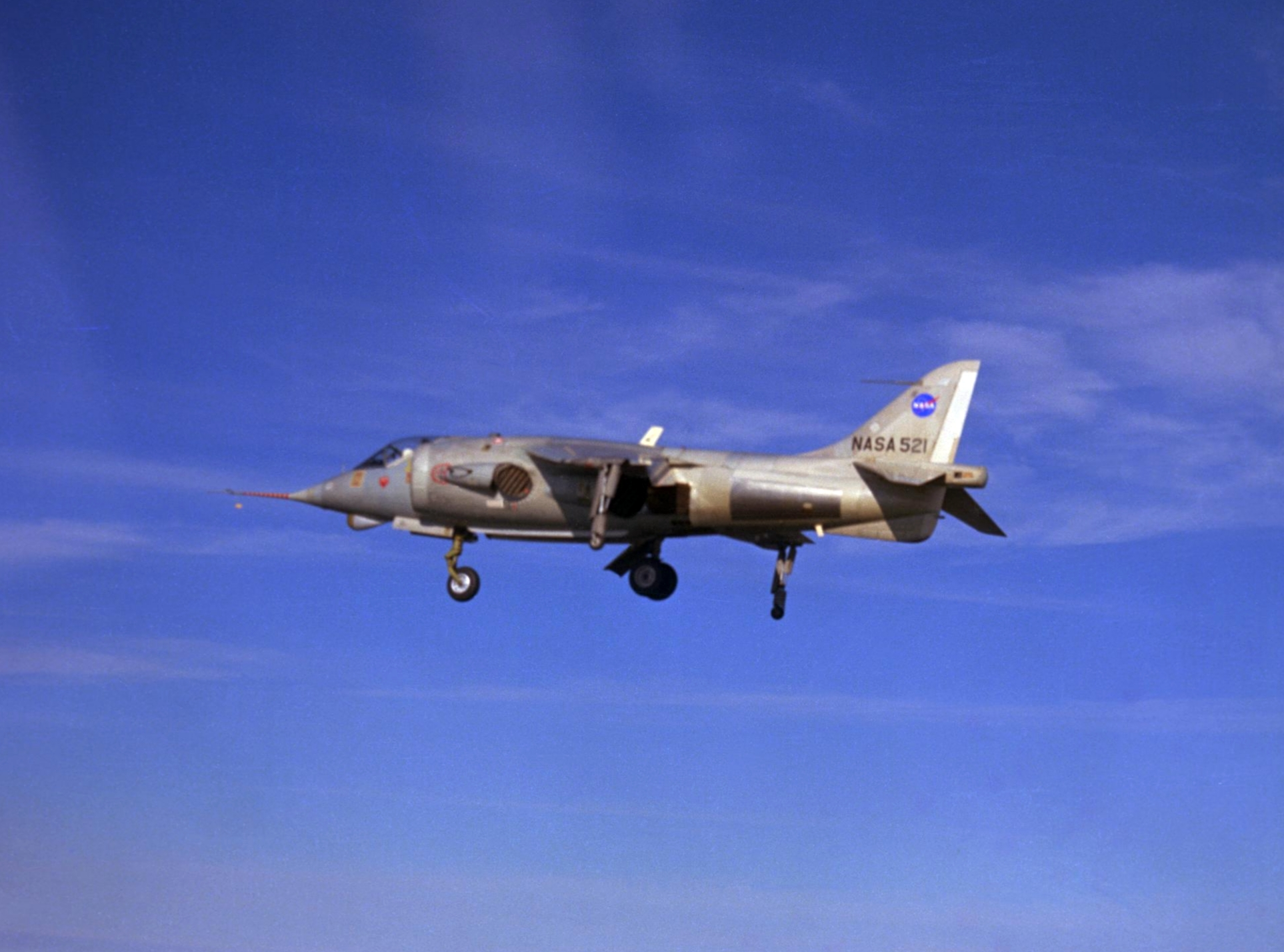 A Hawker Siddeley P.1127 in flight at the NASA Langley Research Center, Virginia (USA). The P.1127 research aircraft was tested extensively at Langley to evaluate V/STOL handling qualities and the use of thrust vectoring as an aid in enhancing aircraft maneuverability.